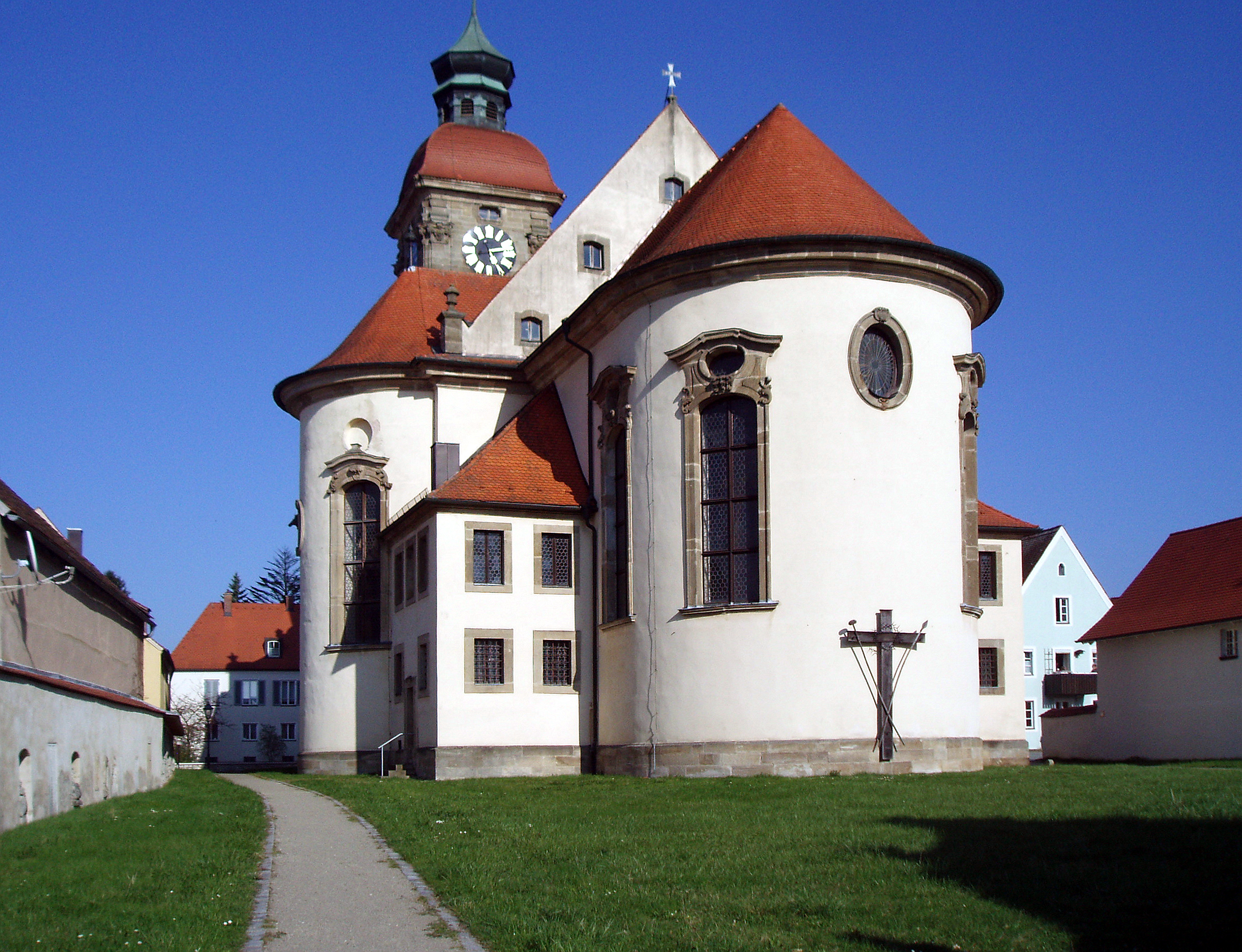 Ellingen, St George's Roman Catholic Parish Church.